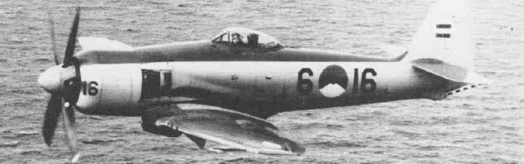 A Hawker Sea Fury FB.50 (s/n 6-16) of the Royal Netherlands Navy in 1956.